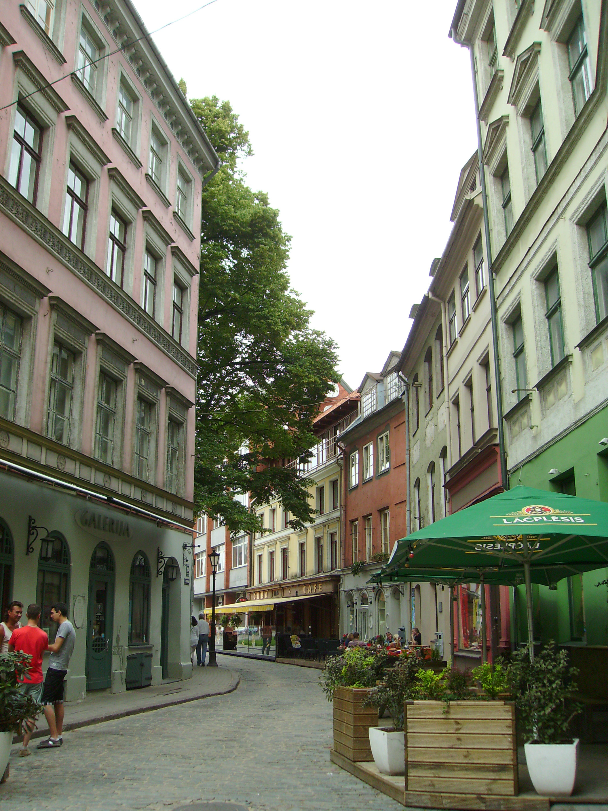 Jauniela iela in Old Riga (Latvia), where the Soviet series The Adventures of Sherlock Holmes and Dr. Watson were shot from 1979 to 1986.